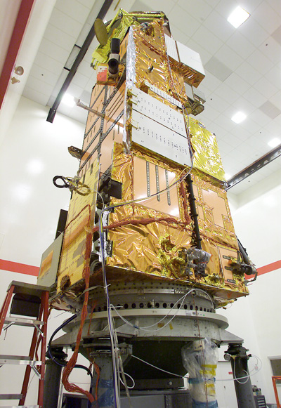 Aqua satellite during assembly